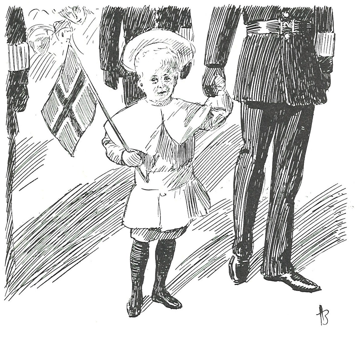 Crown prince Olav (later king Olav V) of Norway (1903-1991). Drawing from London, 1906.